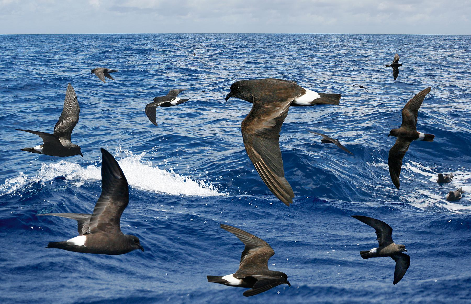 Band-rumped Petrel From The Crossley ID Guide Eastern Birds